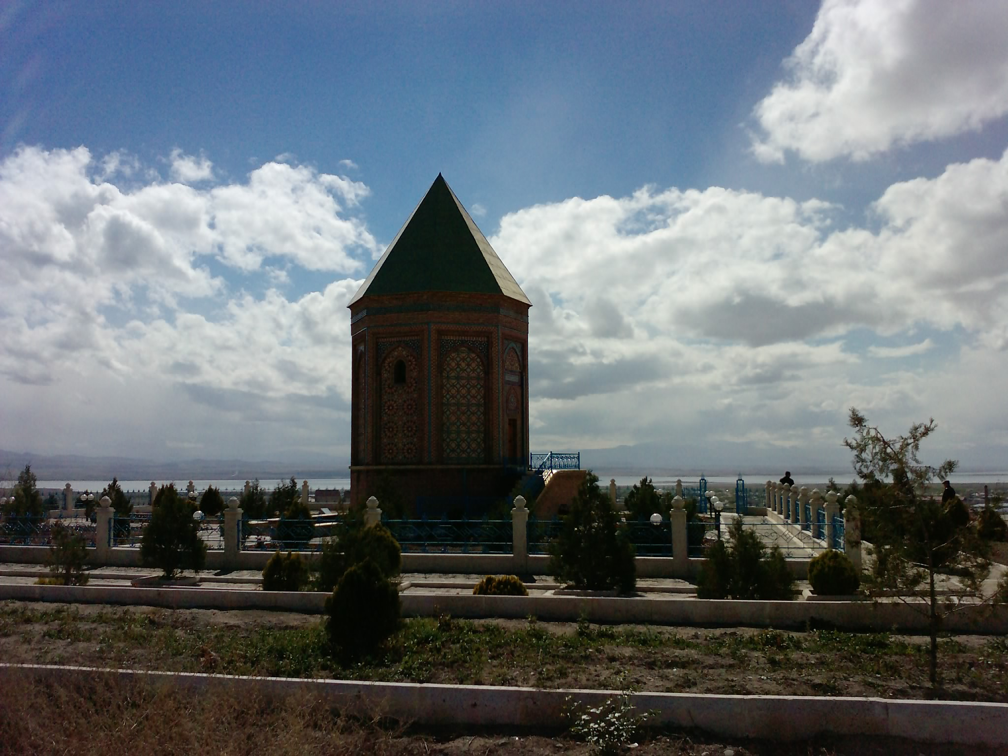 This tomb in Nakhchivan area of Azerbaijan Republic incorporates the grave of the Prophet Noah. The place was considered sacred and the grave of the Noah Prophet since B.C. The existing stone grave structure under the tomb dates to around 5-6th century. Local people still come to this place to pray to the God and strongly believe that this is the place where the Prophet Noah was buried. People claim that the name of the place - Nakhchivan - also derives from the name of the Prophet Noah, which in Turkic language means the place where the Prophet Noah was landed after the floods. The location is close to two mountains considered as places hiding the remnants of the Noah's ship.